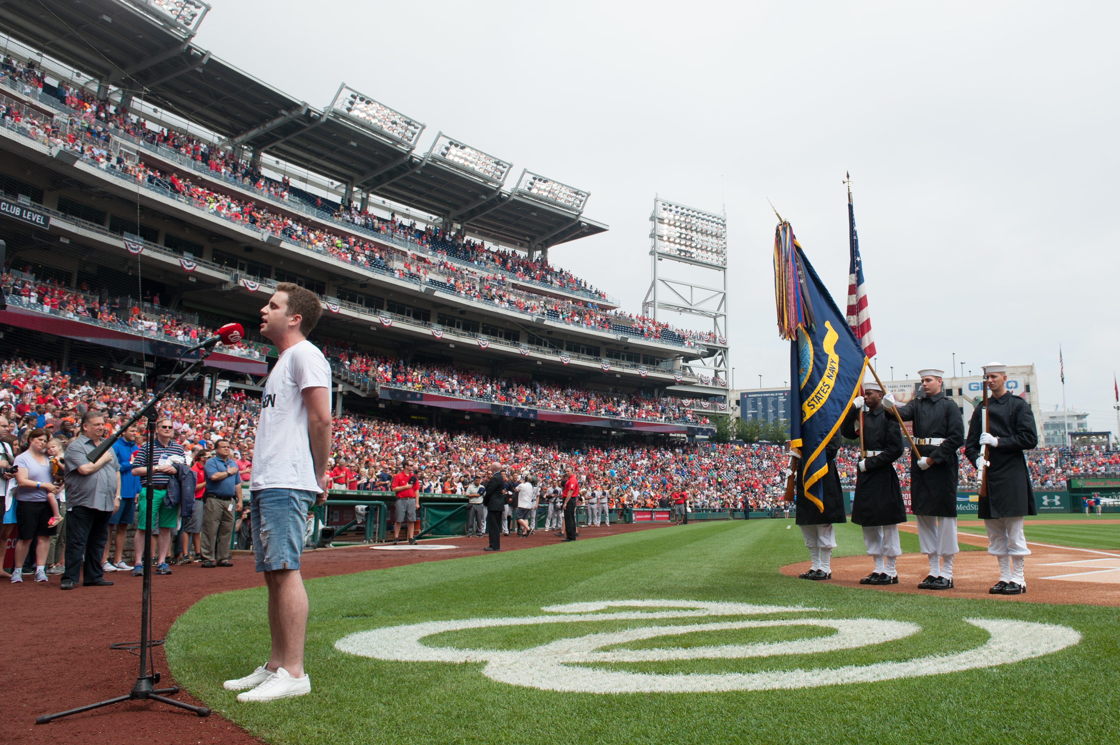 Ben Platt sings the national anthem before the start of the baseball game between the Major League Baseball teams Washington Nationals and San Francisco Giants at Nationals Park in Washington July 4, 2015. (DoD photo by Mass Communication Specialist 1st Class Daniel Hinton)